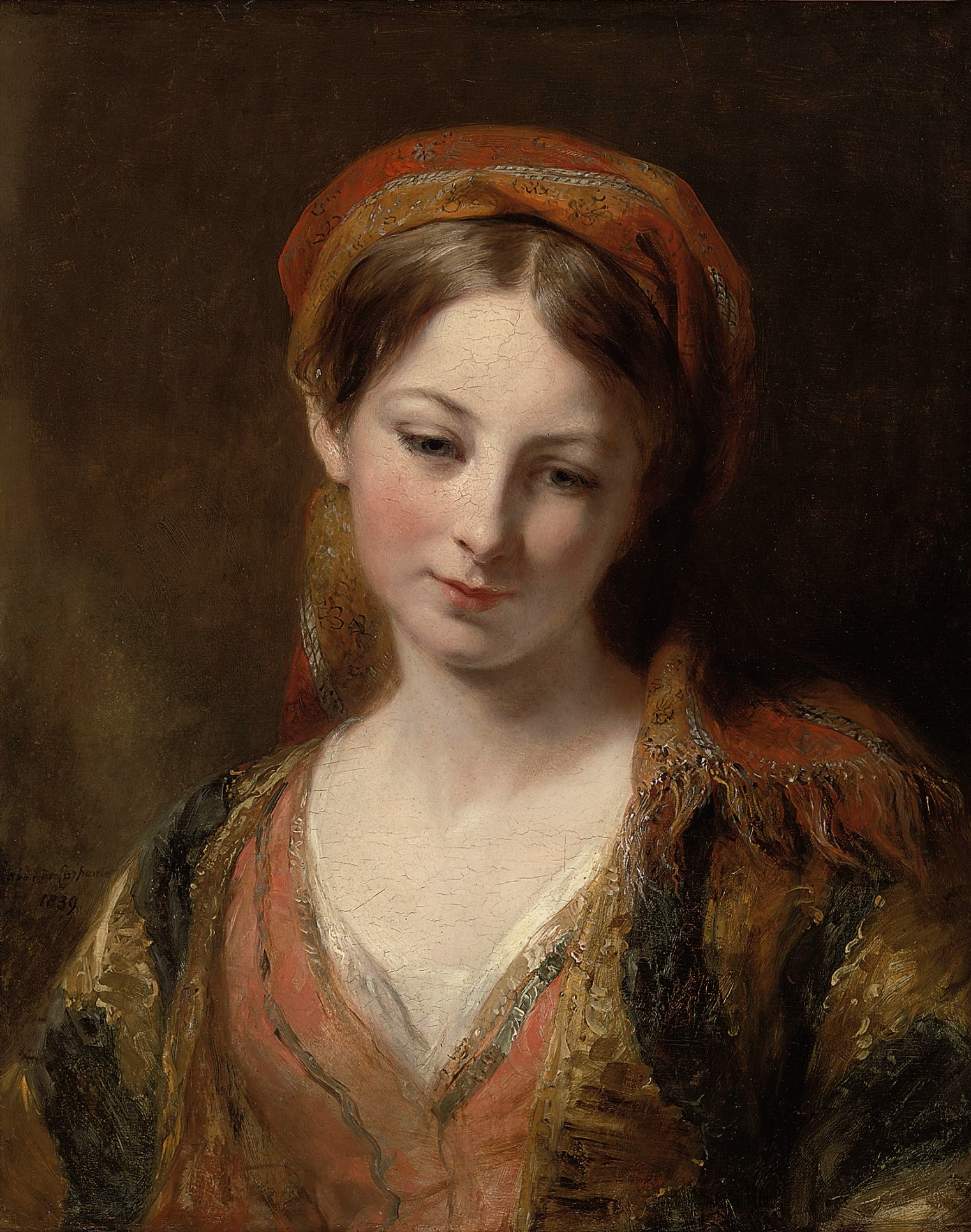 Depicted person: Henrietta Carpenter – presumed